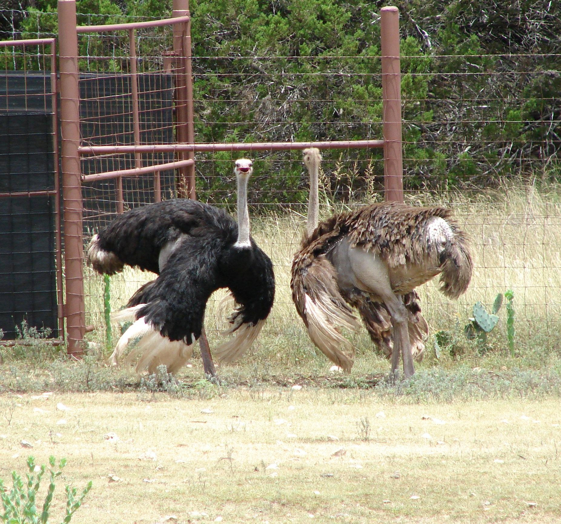 Photo taken by me in July, 2004.